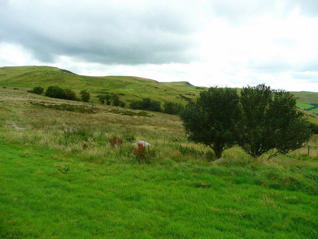 View to Gaer Fach Looking from the bridleway across upper pastures.